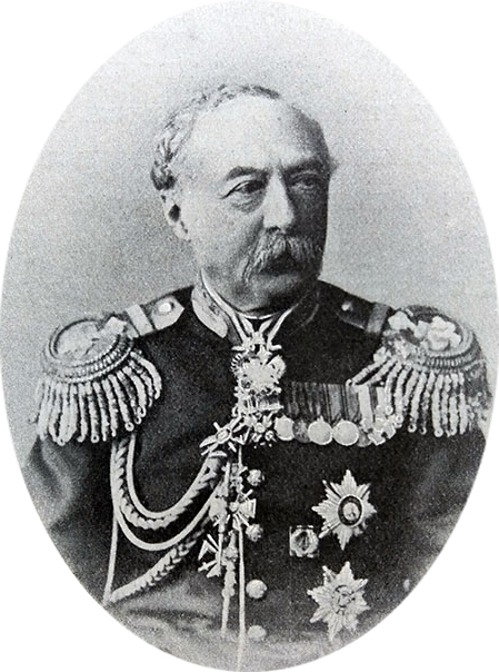 Grigol Dadiani (Kolkhideli)